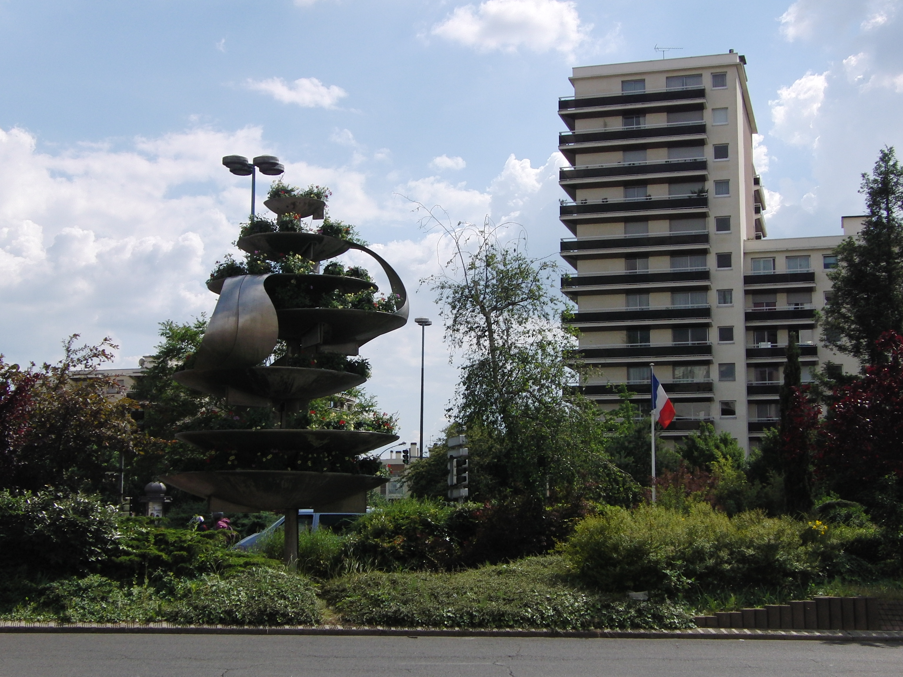 Nogent-sur-Marne, Leclerc square